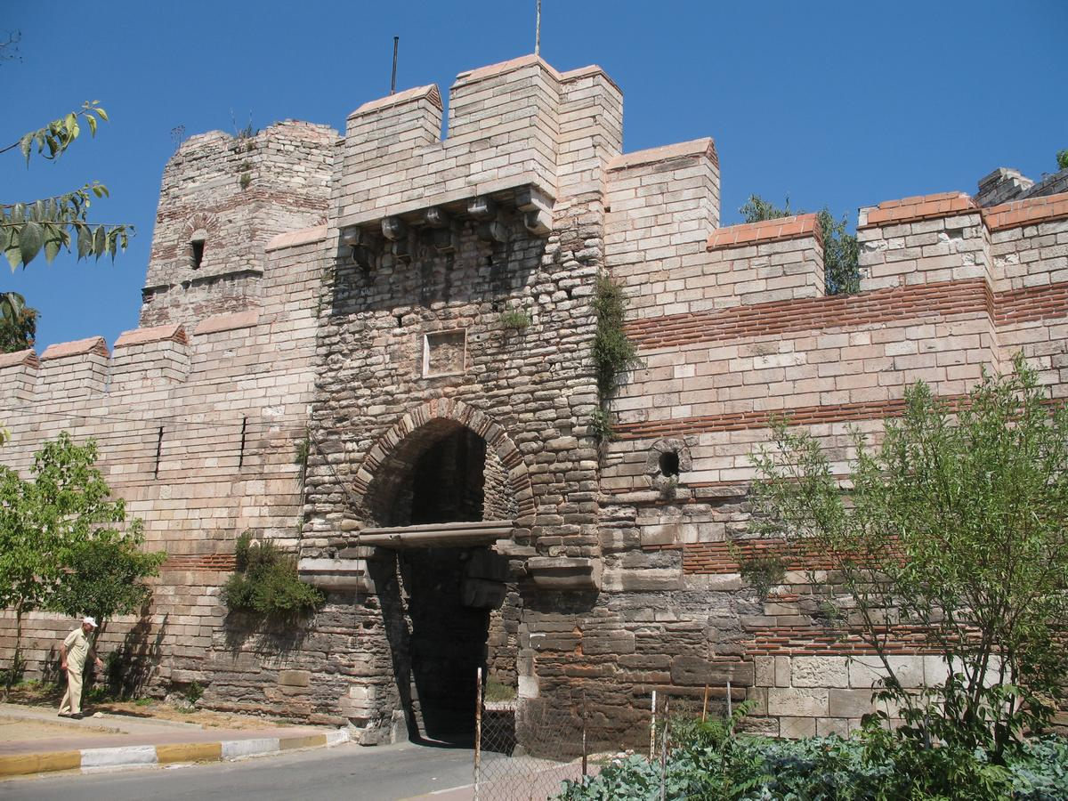 The Theodosian Walls in Constantinople. Gate of Springs(Silivri).